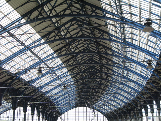 The roof of Brighton Station (4)